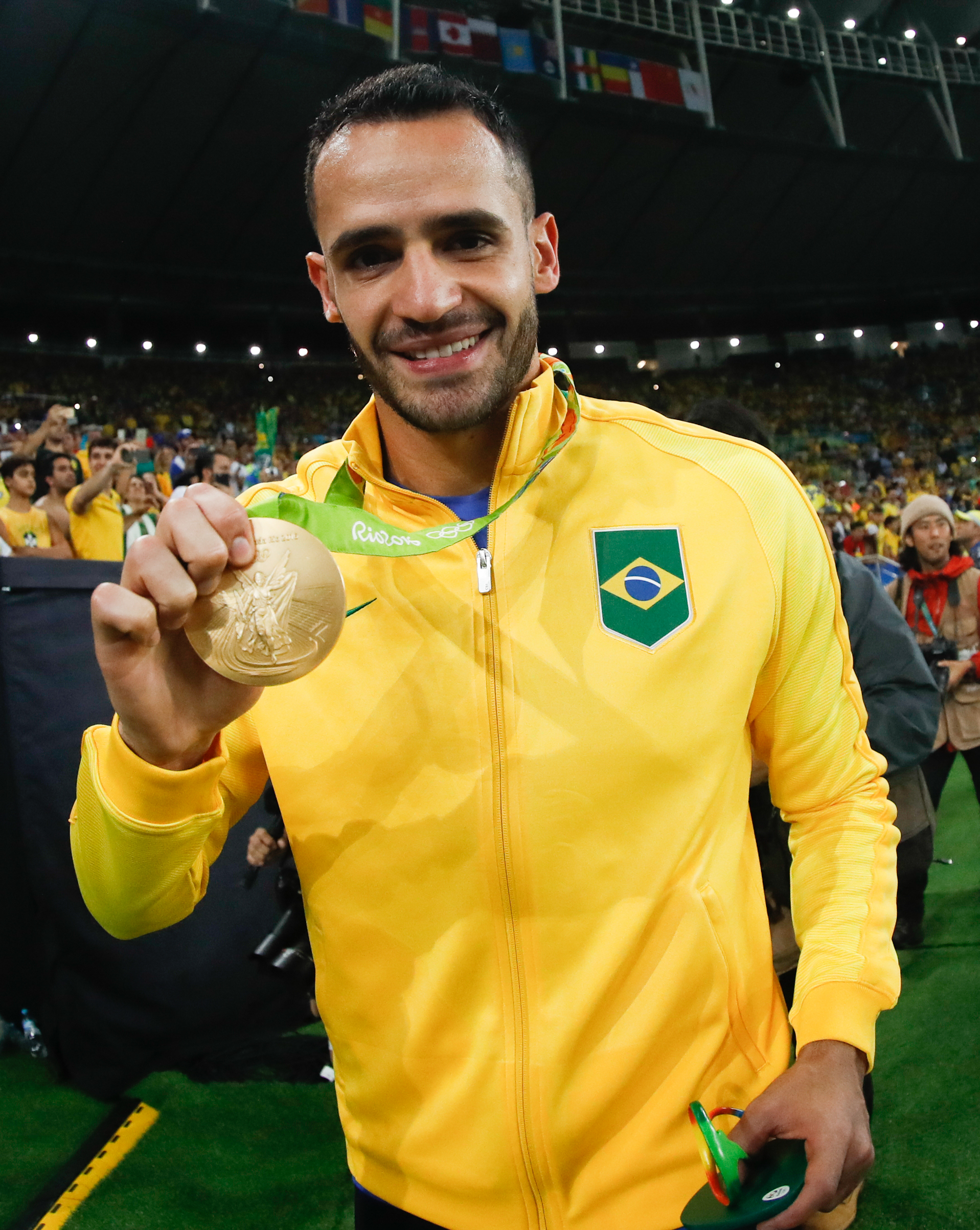 Rio de Janeiro - Brasil vence Alemanha e conquista primeiro ouro olímpico do futebol (Fernando Frazão/Agência Brasil)